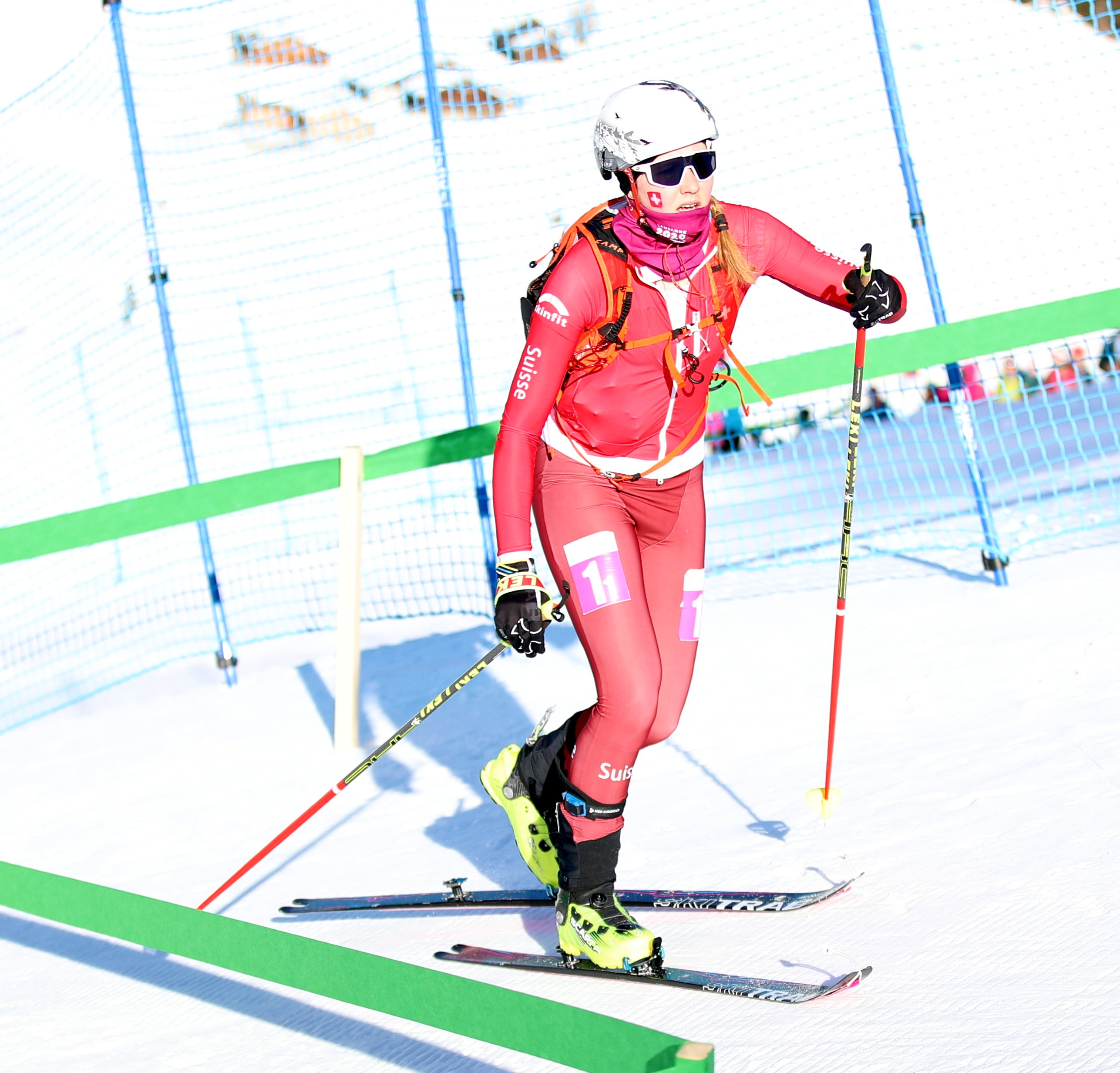 Ski mountaineering Mixed Relay at the 2020 Winter Youth Olympics in Lausanne